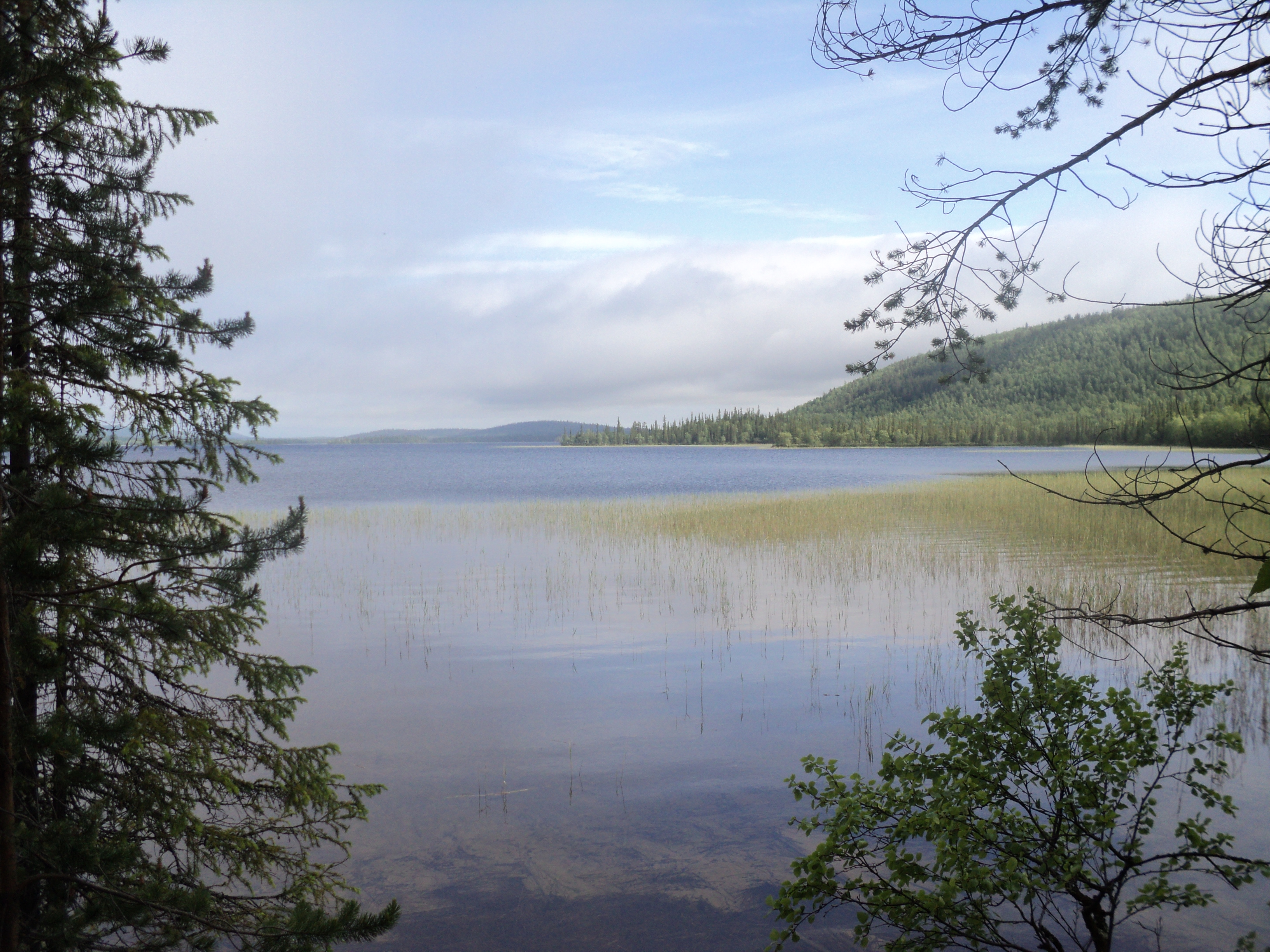 Lake Yumas — in Murmansk Oblast, Northwest European Russia.